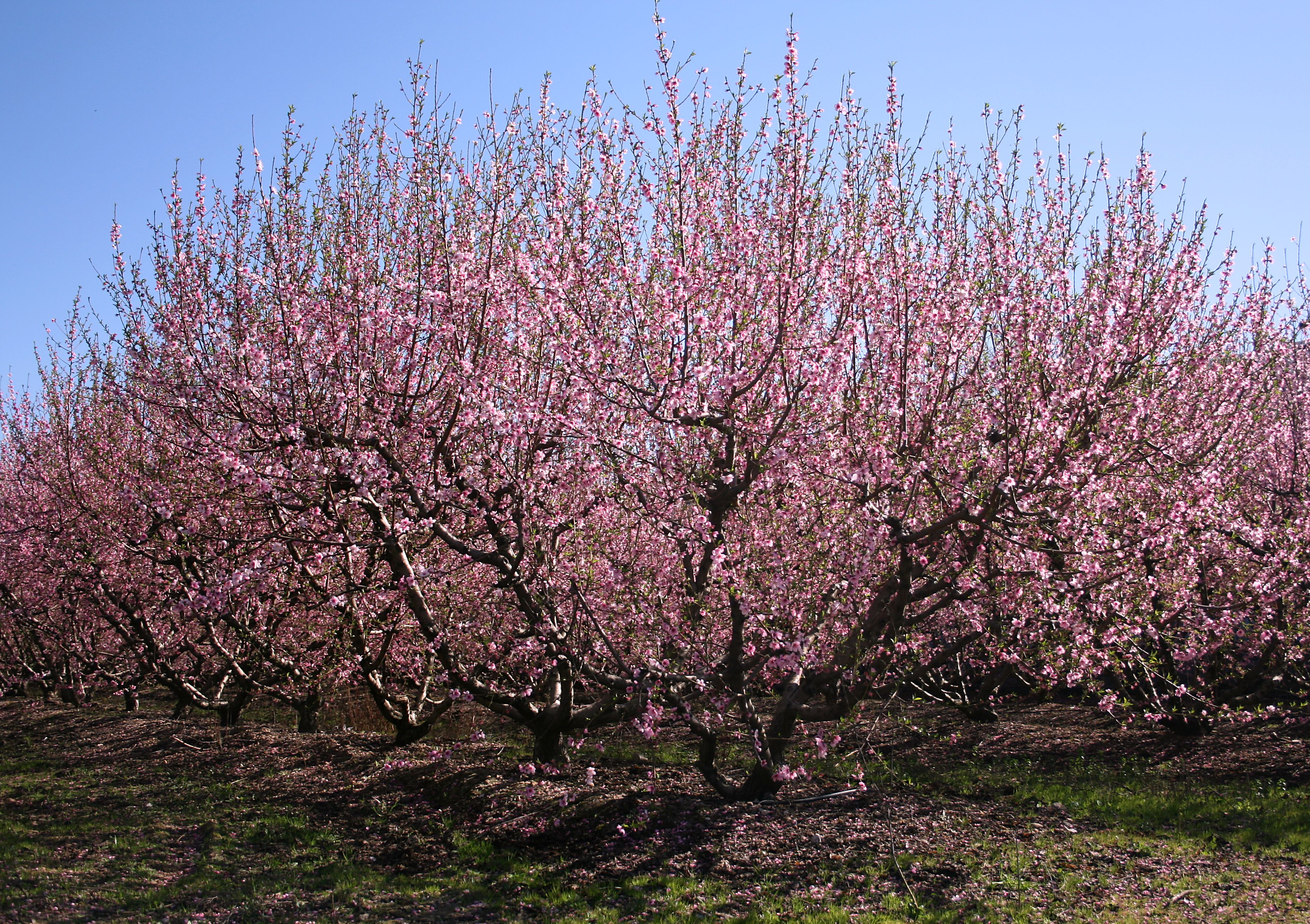 La Rinconada / Spring